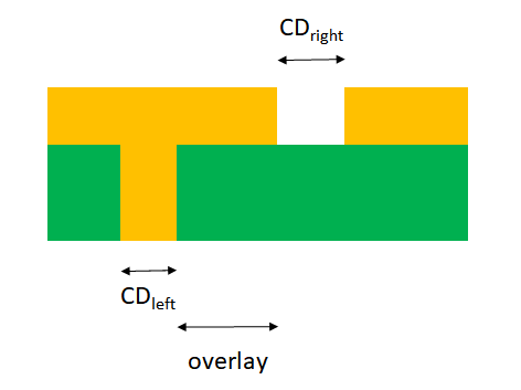 The challenge of litho-etch patterning is the combination of overlay error and CD control from successive exposures.